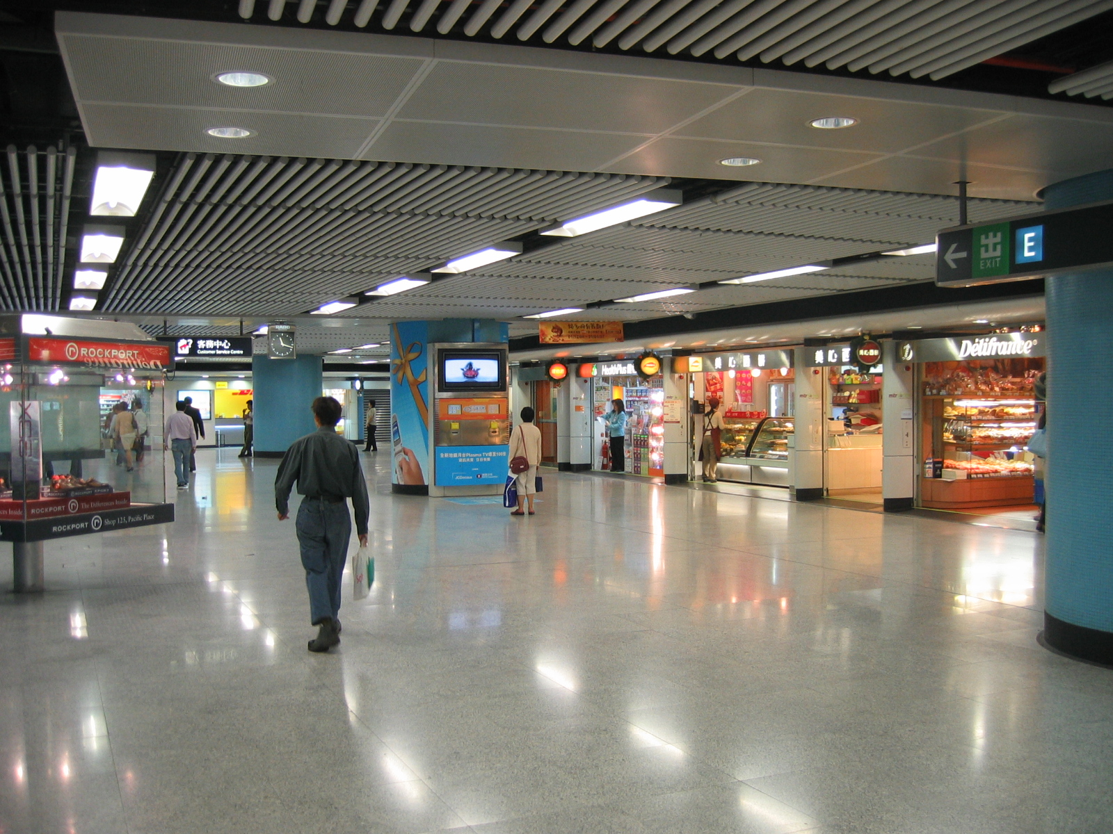 HK MTR Admirity Station Concourse